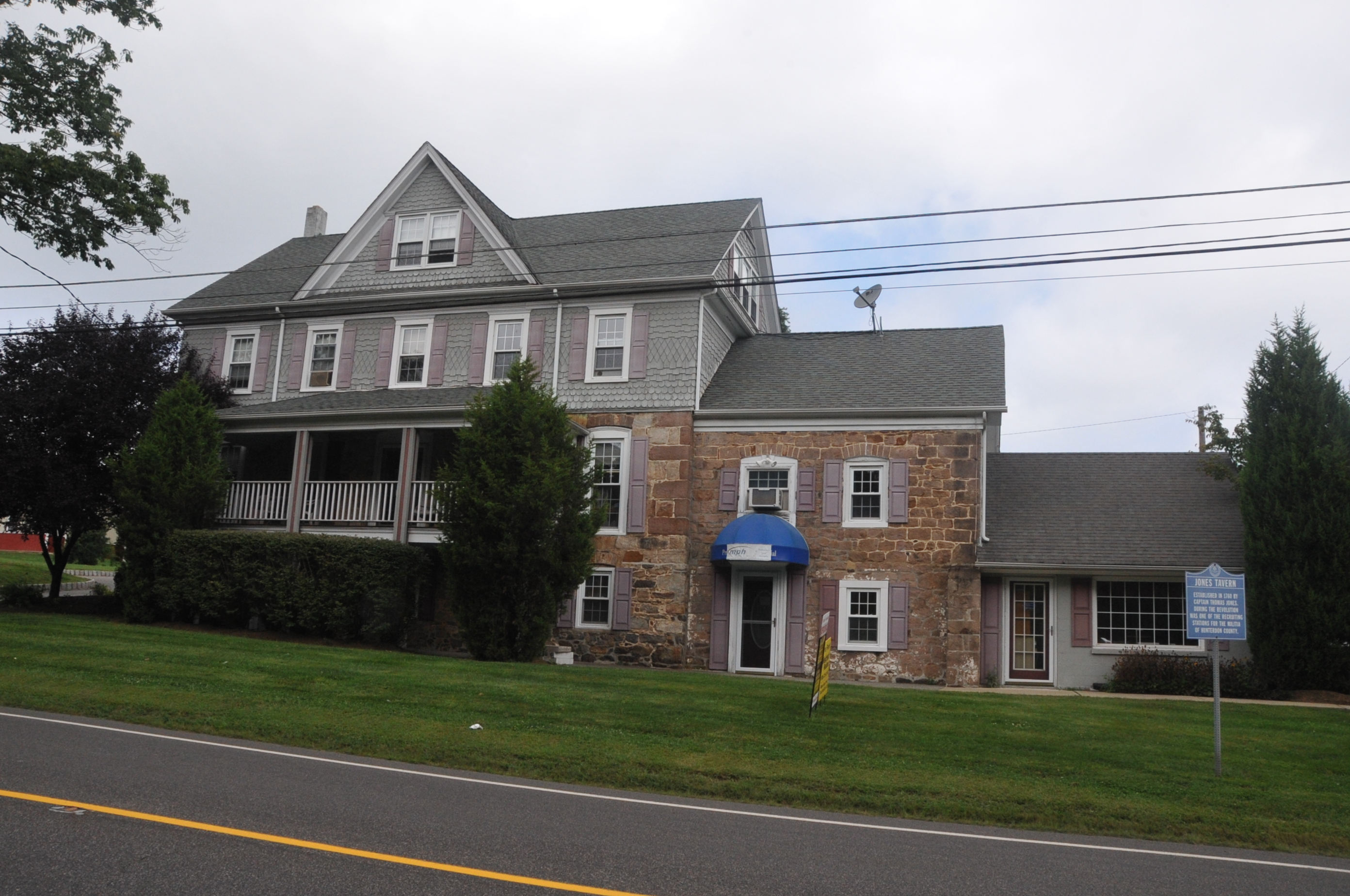 ESTABLISHED IN 1760 BY CAPTAIN THOMAS JONES. RECRUITING STATION DURING THE REVOLUTION FOR THE MILITIA OF HUNTERDON COUNTY